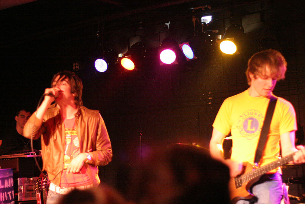 Plain White T's